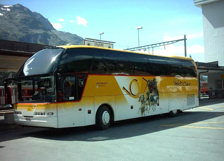 Neoplan Postbus in St. Moritz, Switzerland.